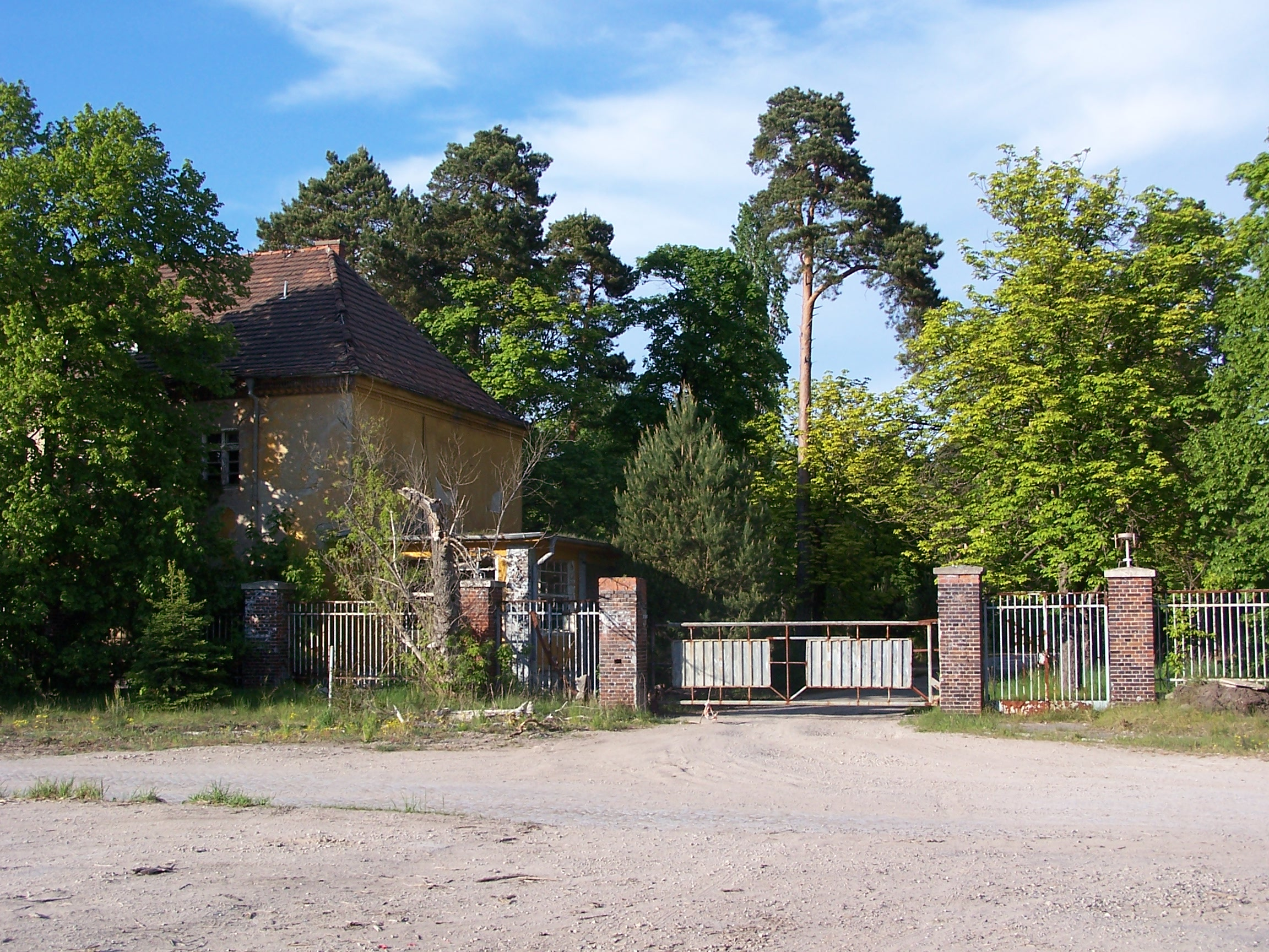 former barracks entrance in Forst Zinna